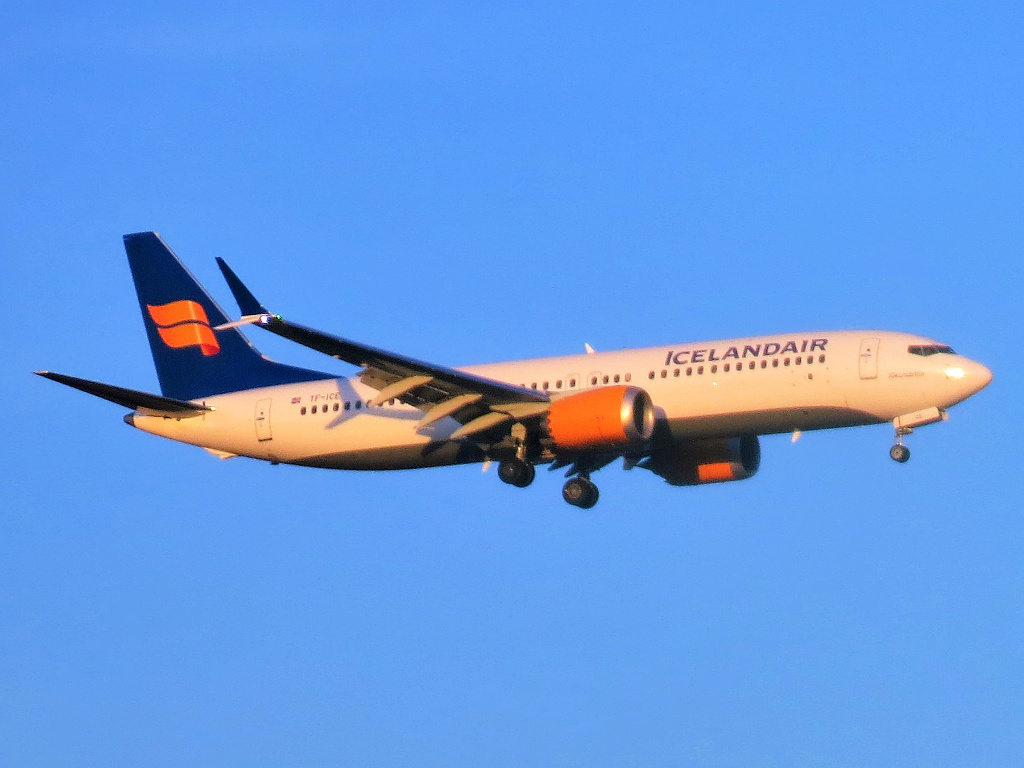 Icelandair's first Boeing 737-8 MAX, TF-ICE, is on final approach to Newark Liberty International AirportÍslenska: Fyrsta Boeing 737-8 MAX, Icelandair's TF-ICE, er að lokum nálgast Newark Liberty International Airport.